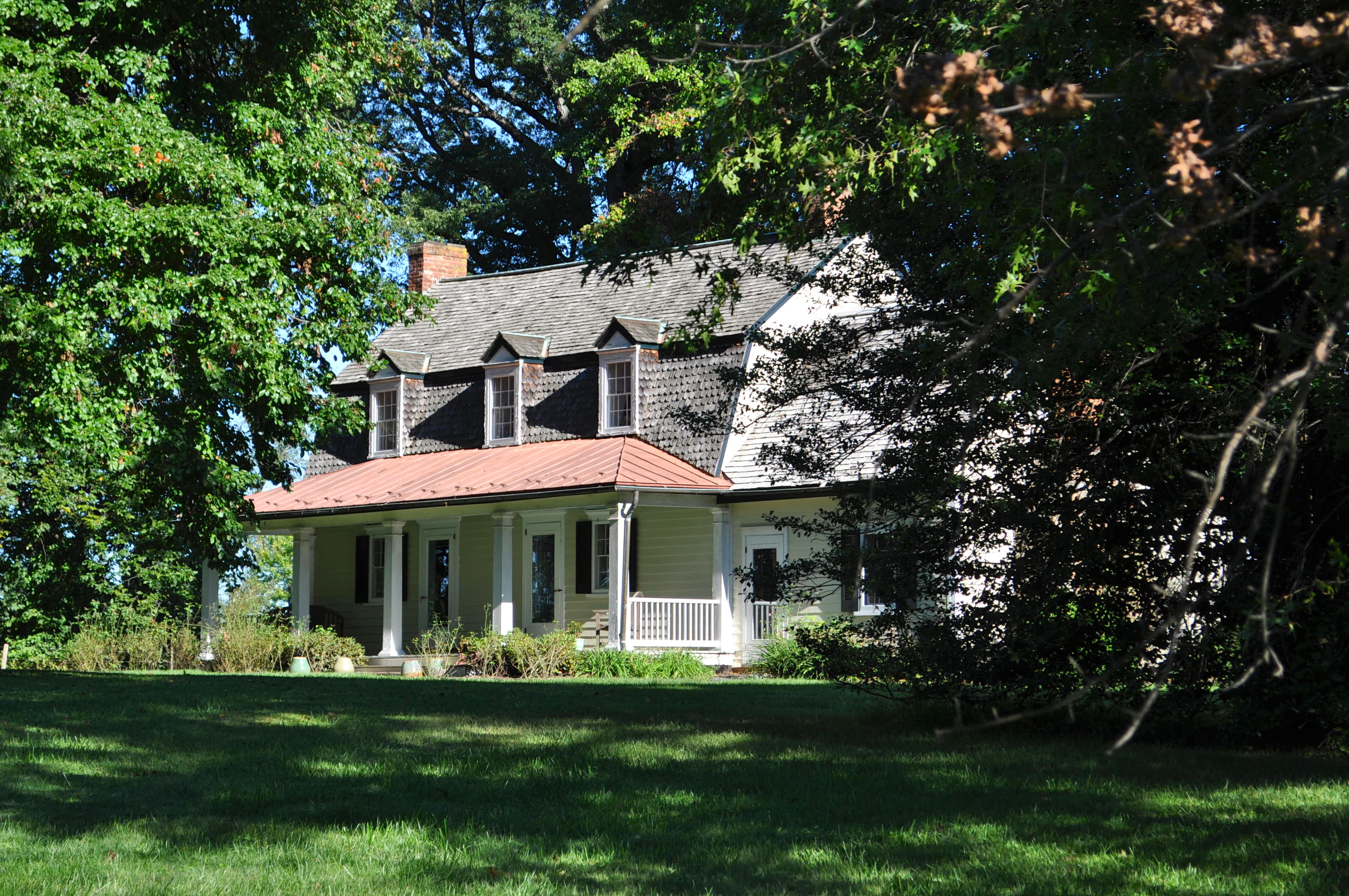 Oaks II